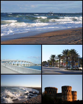 A collection of photos I took around Vilano Beach, Florida.